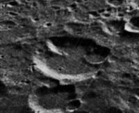 Oblique view of Douglass, on the far side of the moon, facing west.